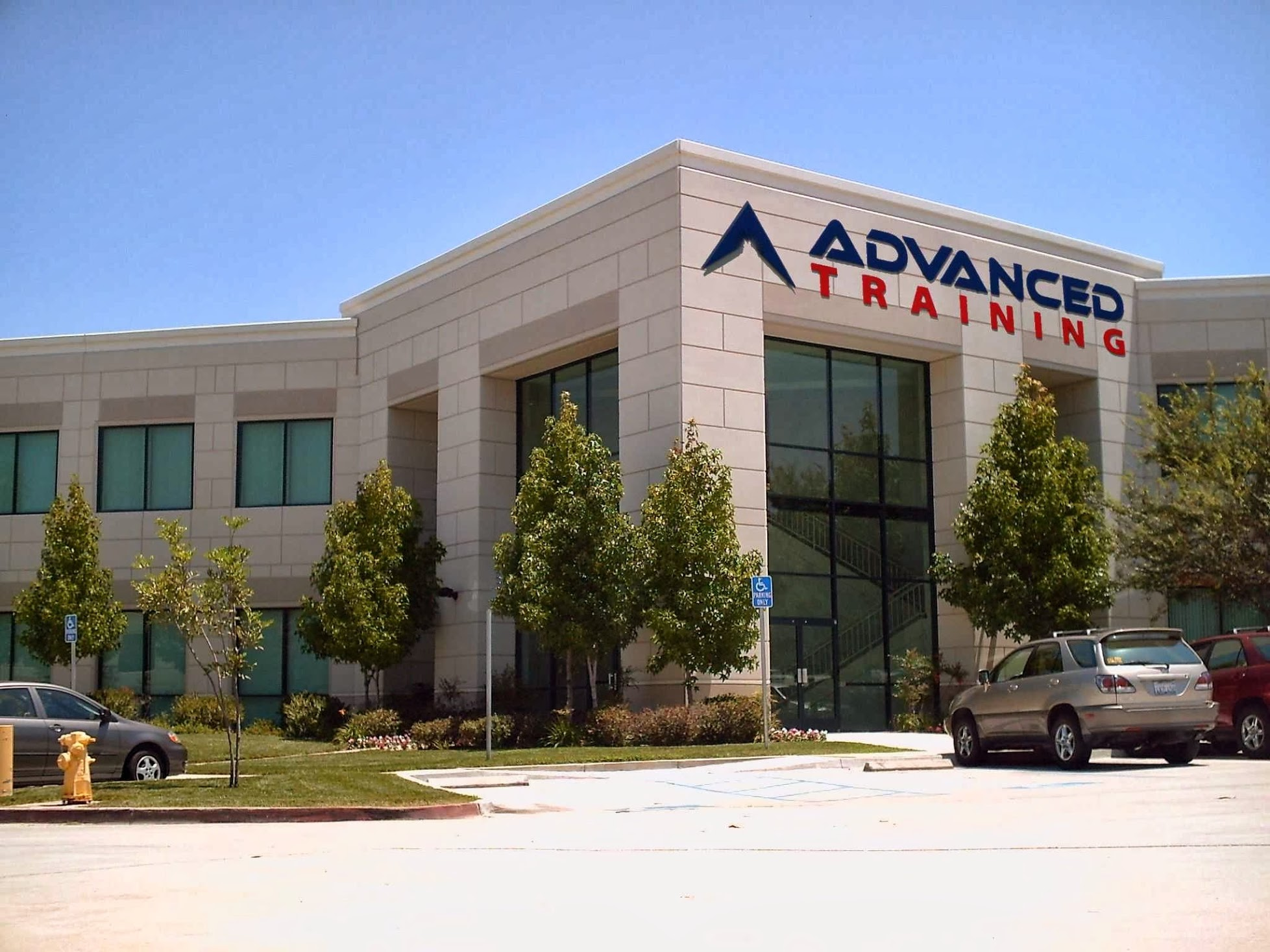 Advanced Training Associates - Career College in El Cajon, CA